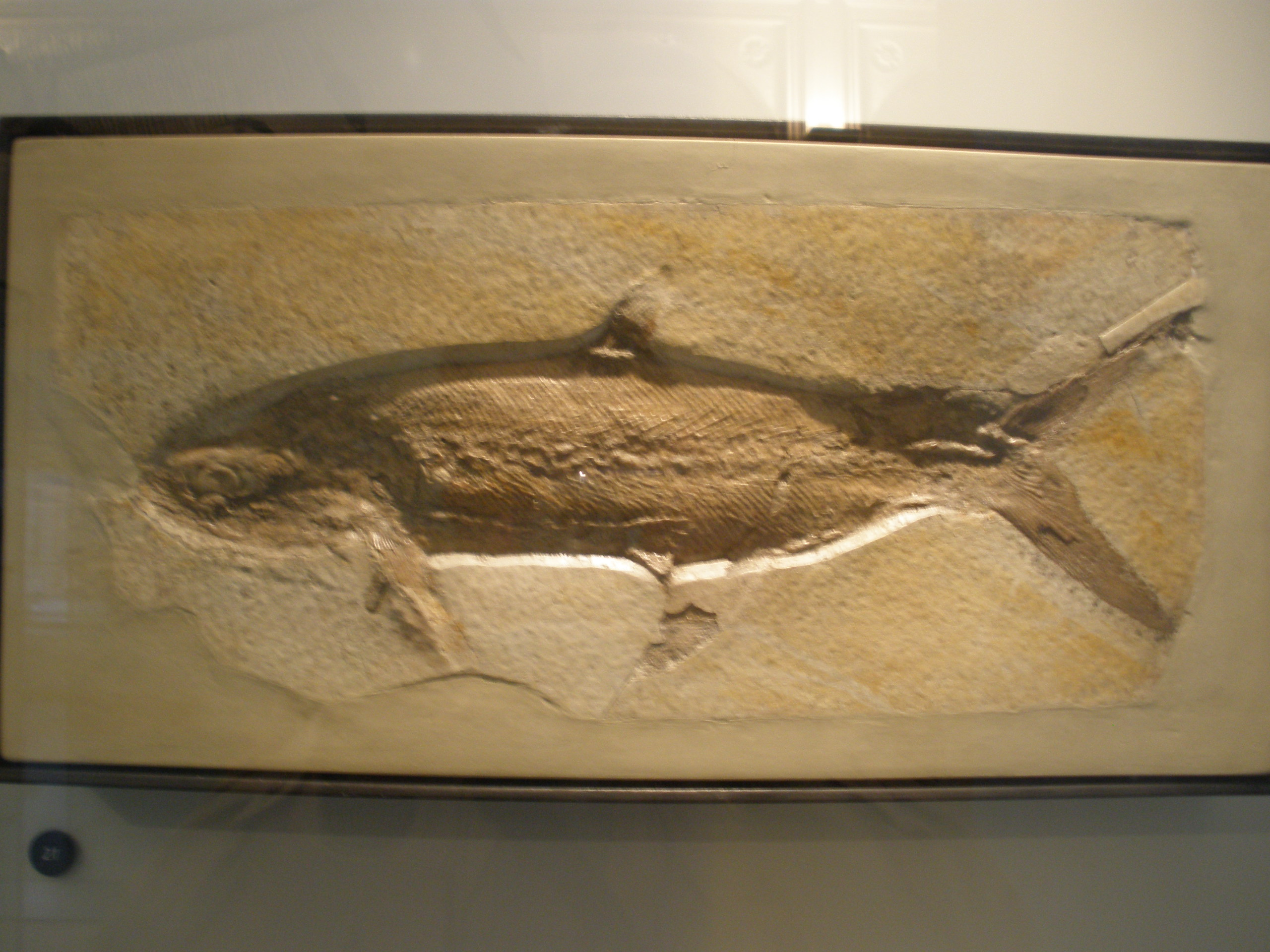 Skeleton of Caturus velifer, a fossil bony fish